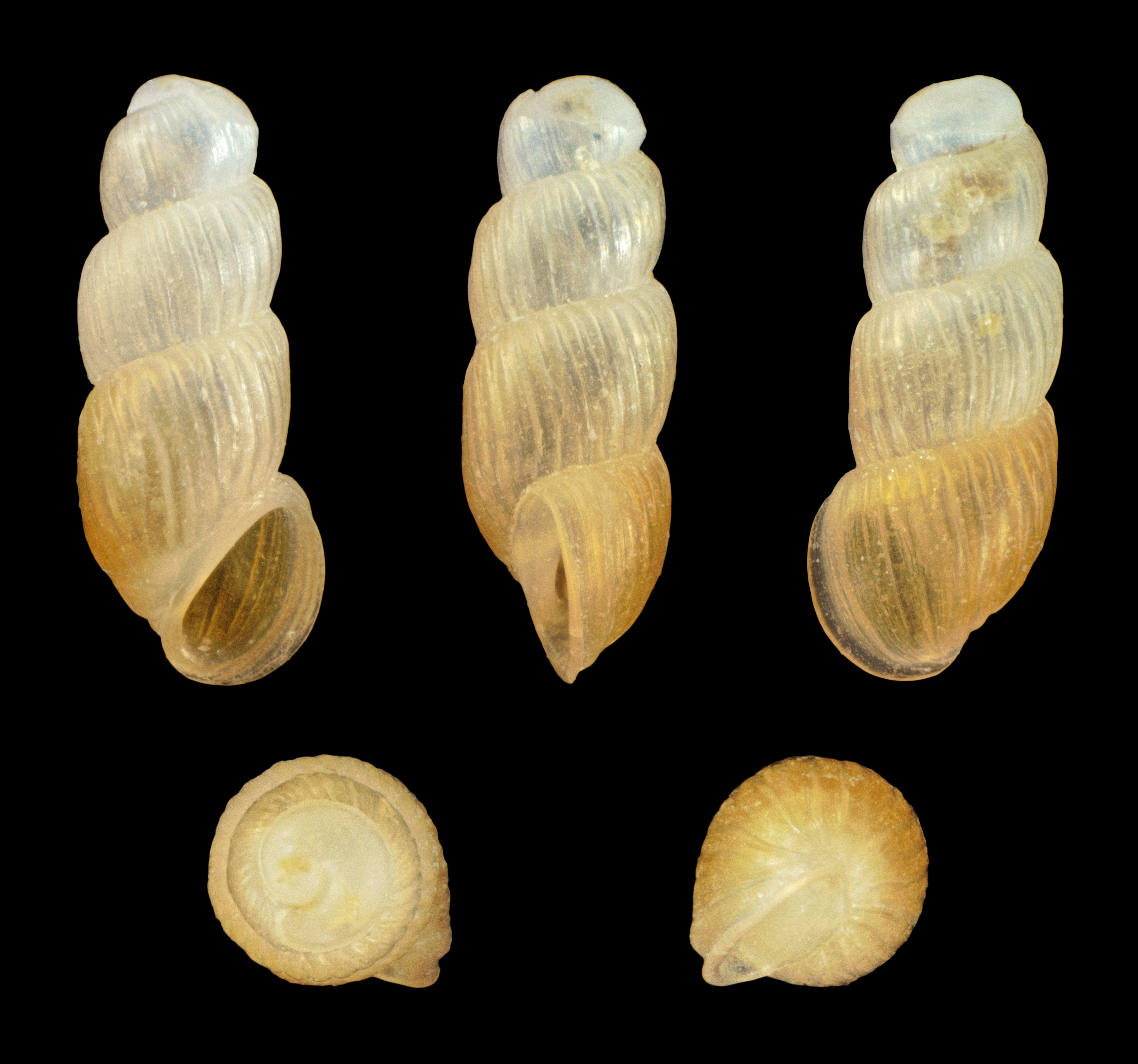 Looping Snail, adult shell; Length 0.39 cm; Originating from Urbanizació s’Estanyol, Majorca, Spain 39°44′2.01″N 3°15′30.51″E / 39.7338917°N 3.258475°E; Shell of own collection, therefore not geocoded.